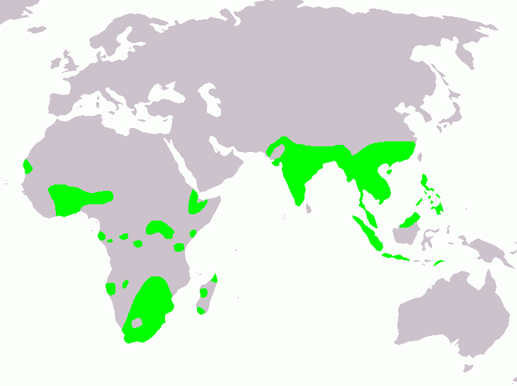 Distribution map of Rostratula benghalensis by L. Shyamal